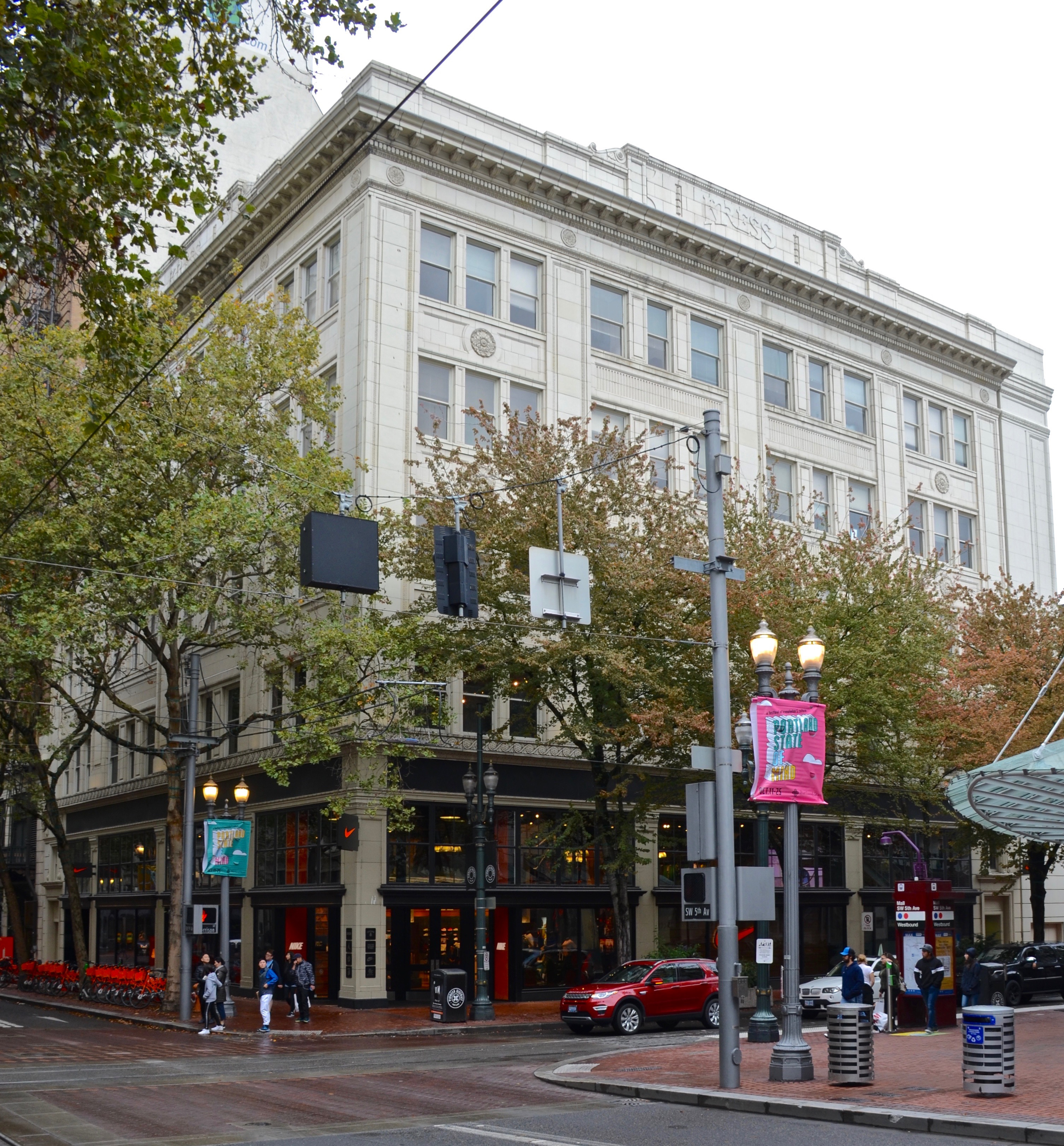 The historic Kress Building, at SW 5th & Morrison in downtown Portland, Oregon. "Kress" lettering can be seen on the building's cornice in this view, on the Morrison Street façade.